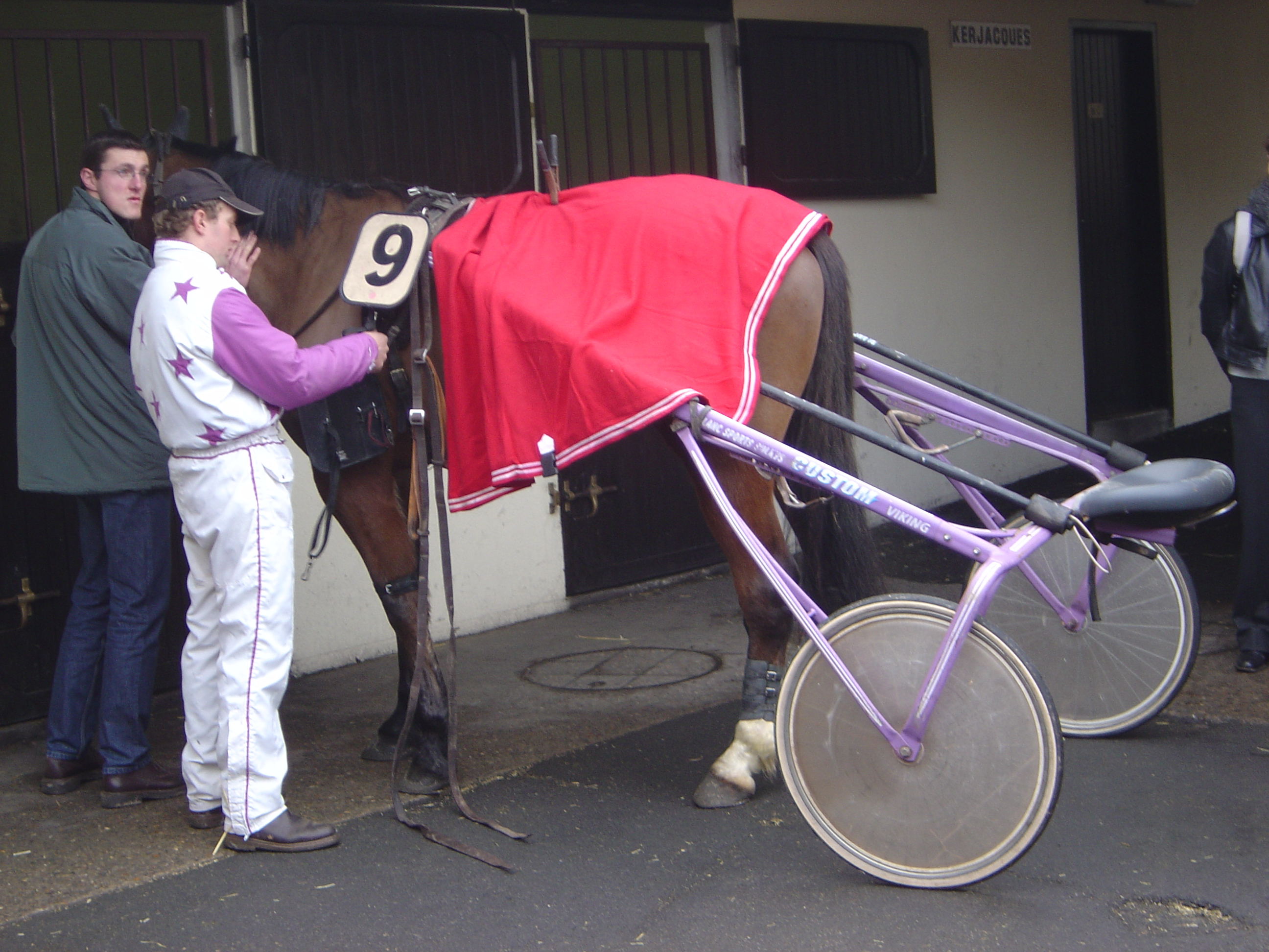 trot racing in Vincennes, France sulky being prepared